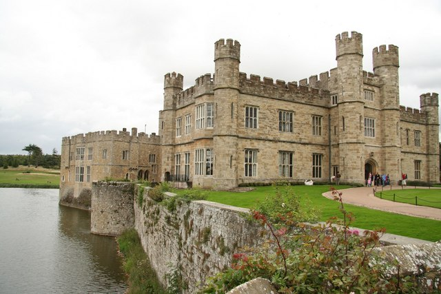 Leeds Castle The New Castle and Gloriette at Leeds Castle